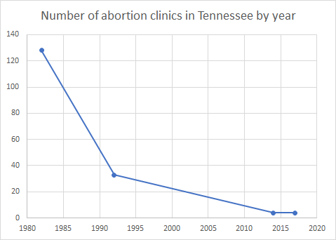 Number of abortion clinics in Tennessee by year. Data is from articles linked at